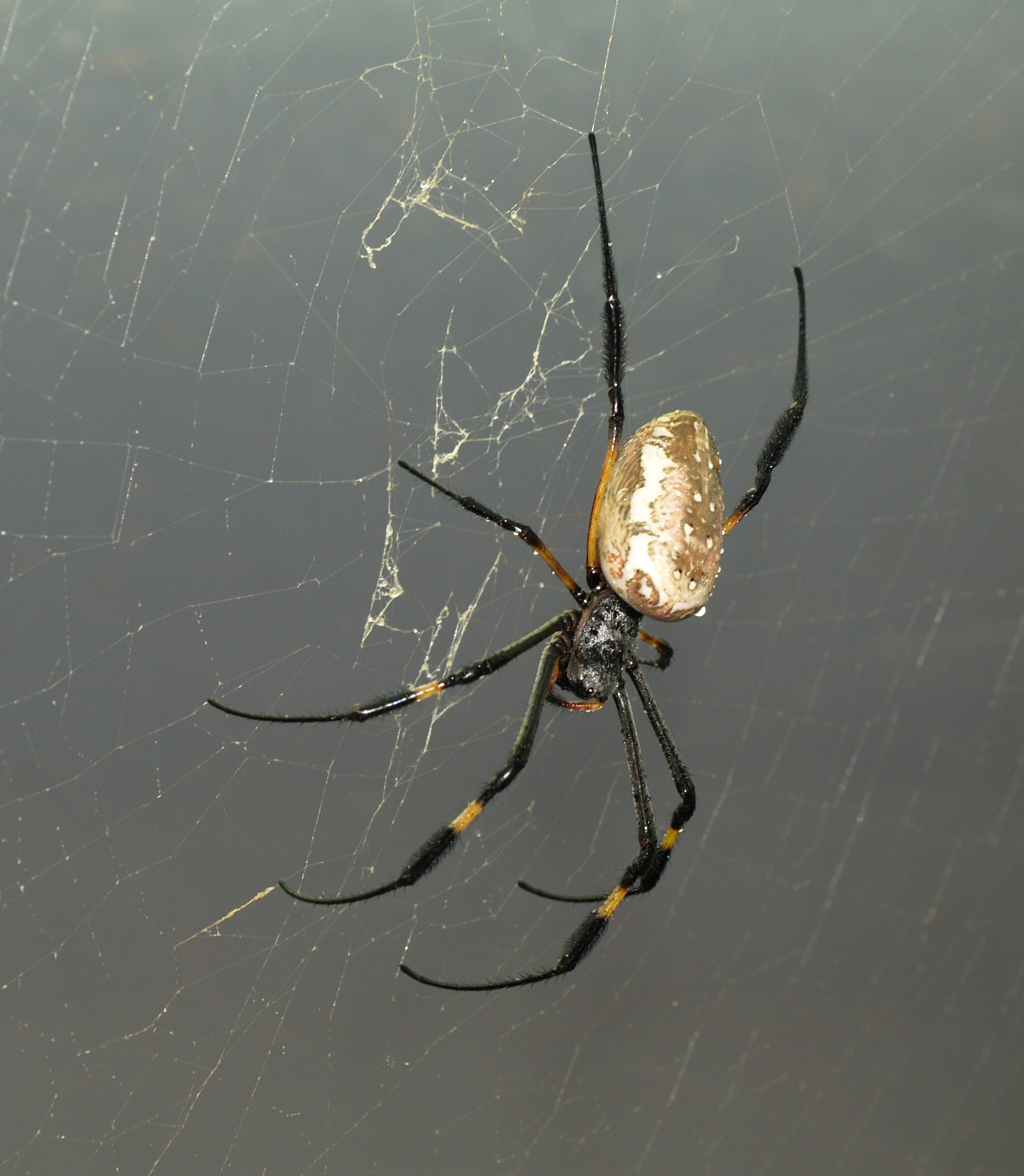 female Nephila senegalensis from Cologne Zoo, Germany.